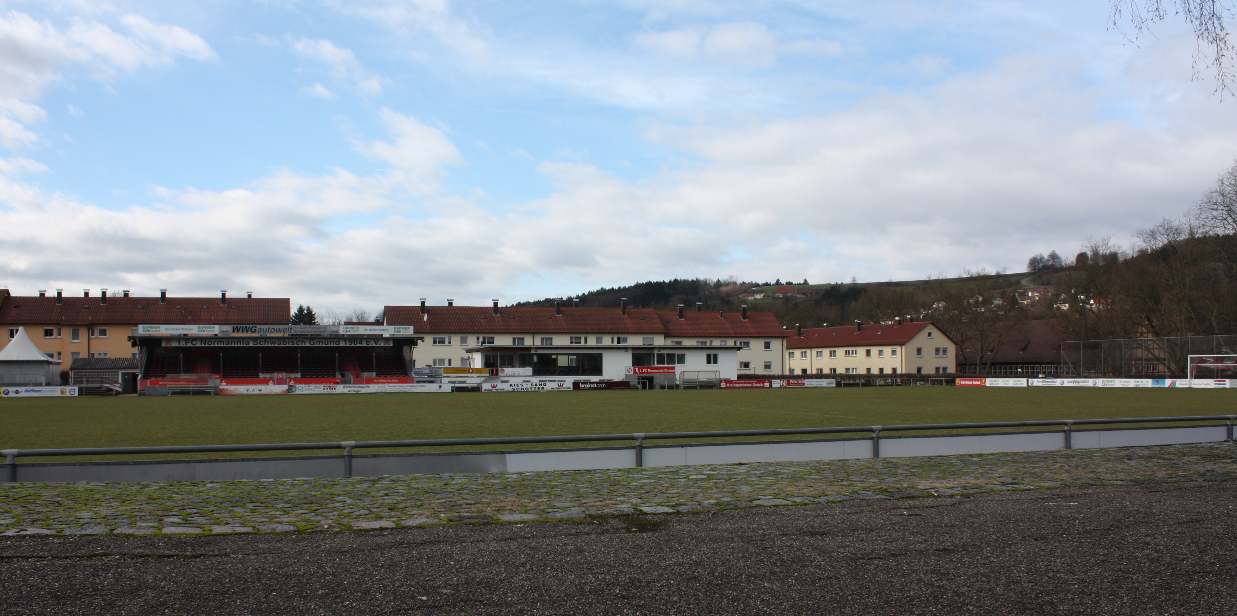 The Jahn Stadium or Normannia Stadium, home ground of the Germann Associaton football club Normannia Gmünd